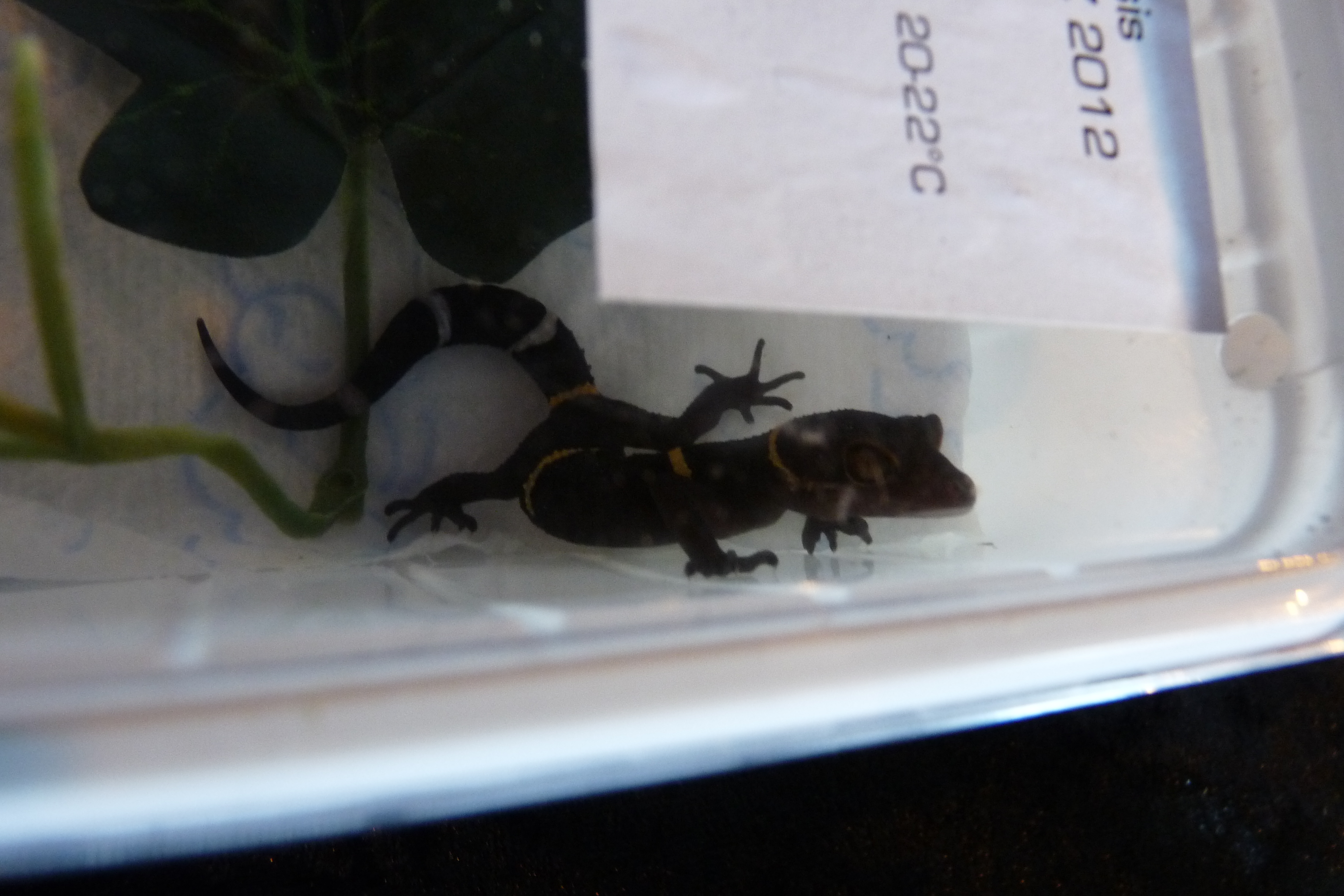 Captive juvenile Goniurosaurus hainanensis.